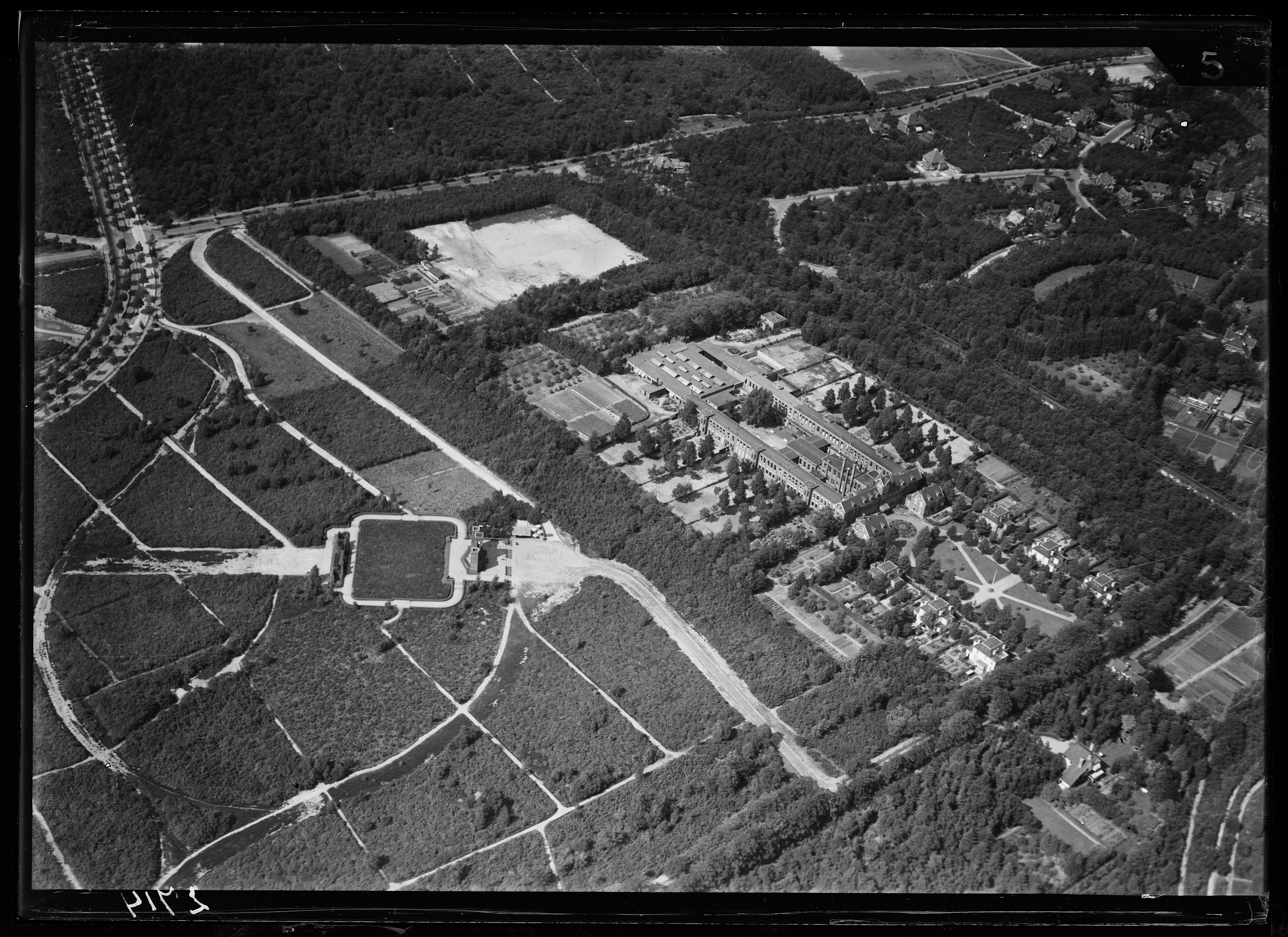 Aerial photograph of Amersfoort, The Netherlands. Belgenmonument.